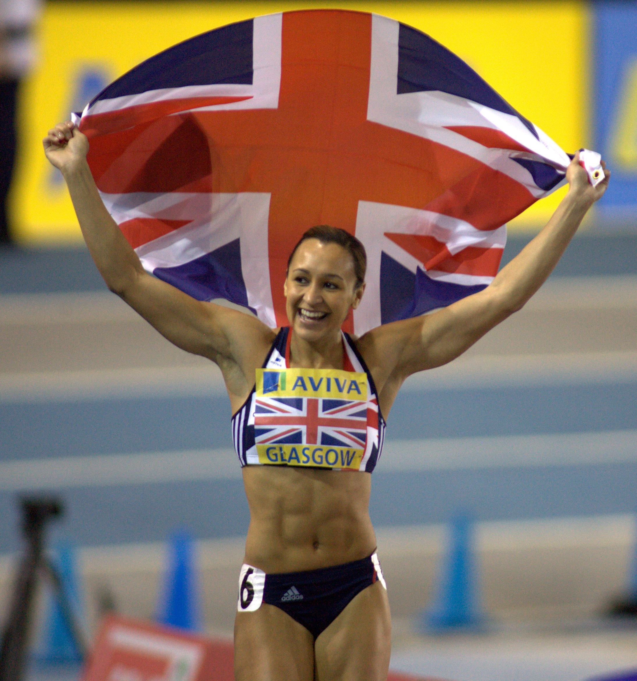 AVIVA INTERNATIONAL ATHLETICS 2011 Great Britain's Jessica Ennis does her parade lap at the Kelvinhall, Glasgow, during the Aviva International Athletics. Picture : Alasdair Middleton/Universal News & Sport (Scotland) GLASGOW/KELVINHALL Saturday 29th January 2011 Universal News and Sport (Europe) All pictures must be credited to (0ffice) 0844 884 51 22